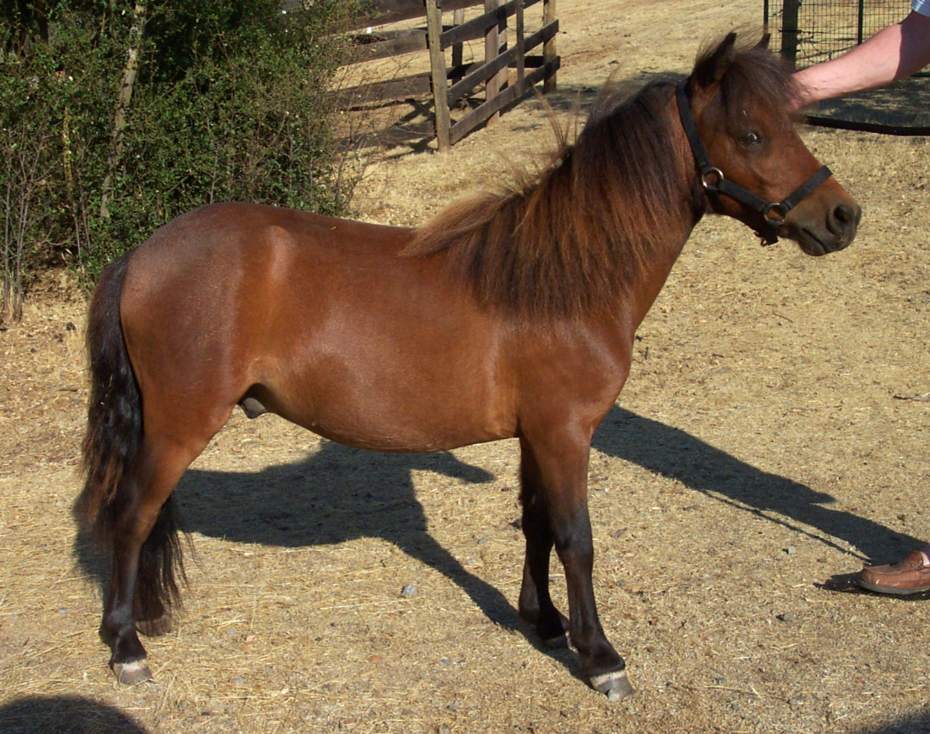 16 month old Falabella Blend Stallion Colt, Sire was Full Falabella Dam was mix.